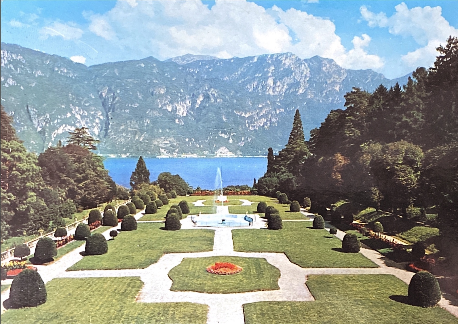 Villagiuliagiardino